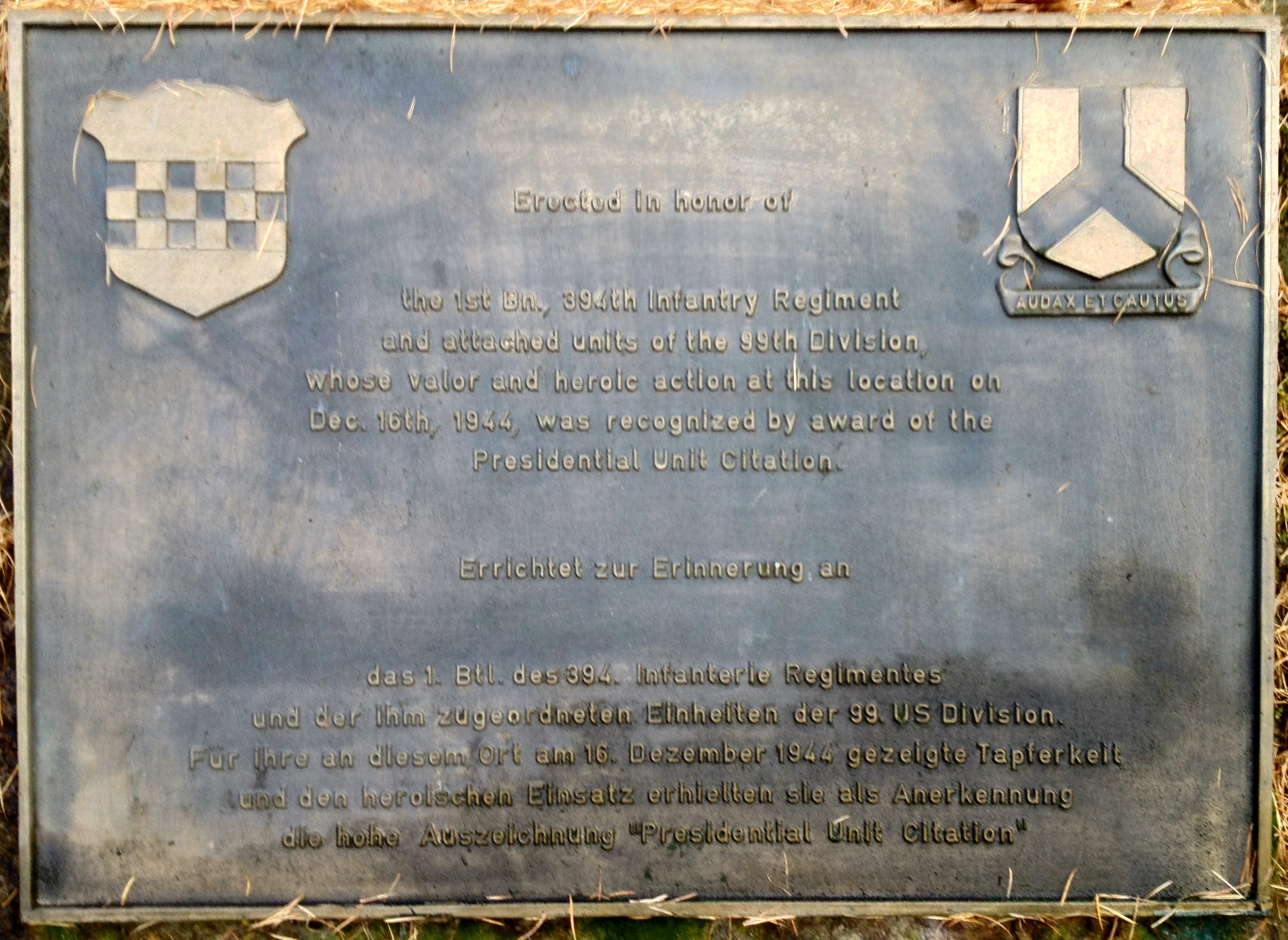 394 Infantry Regiment Presidential Unit Citation at Losheimergraben for Battle of the Bulge